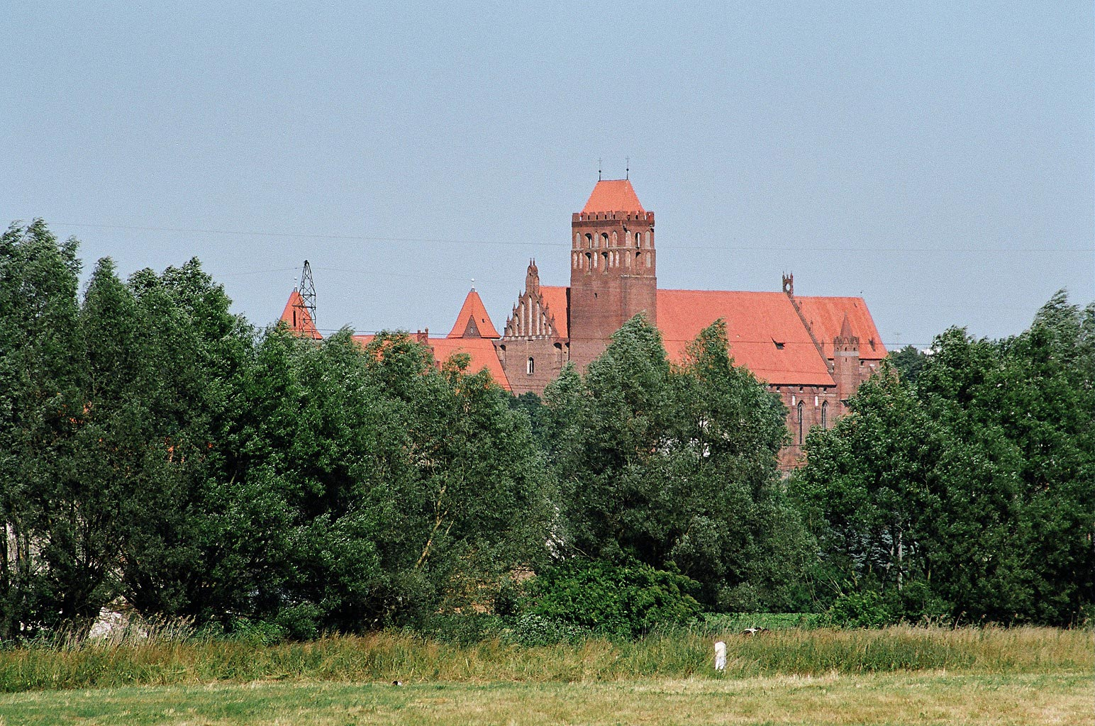 Kwidzyn, Castle and cathedral, view from south-west.